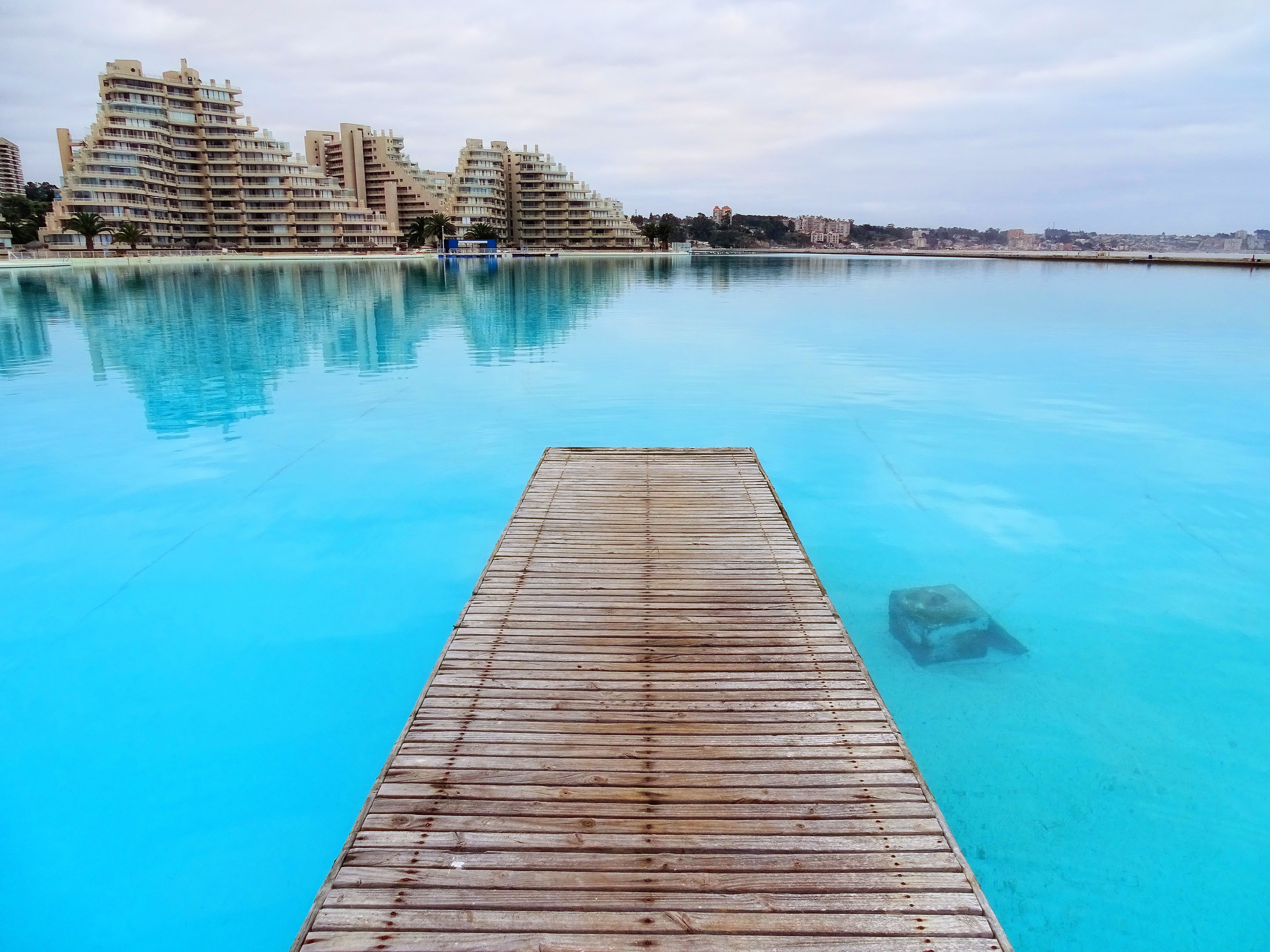 The view from a pier at the northern end of the pool at San Alfonso del Mar.